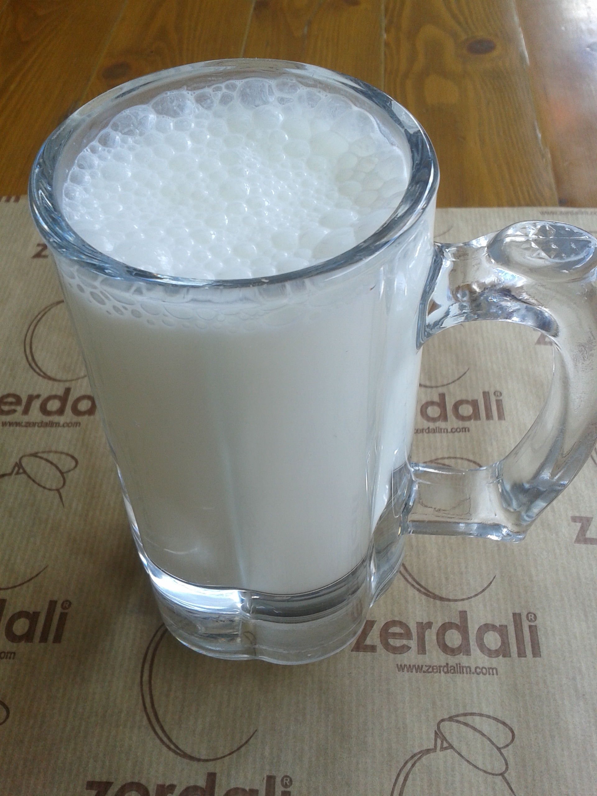 Ayran in a beer glass, Ankara.